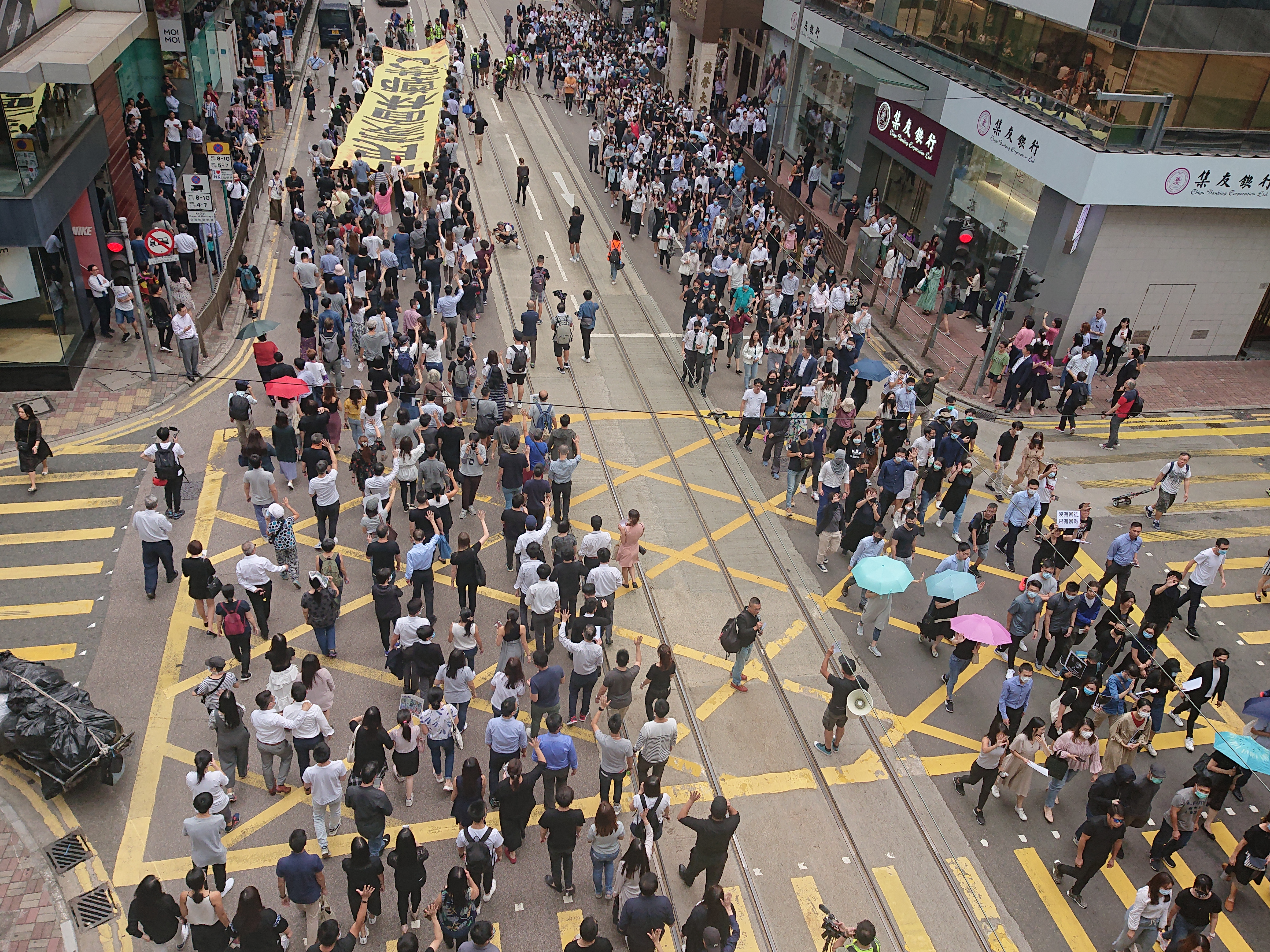 2019-10-18 Central Protest on Des Voeux Road Central near Queen Victoria Street (2)